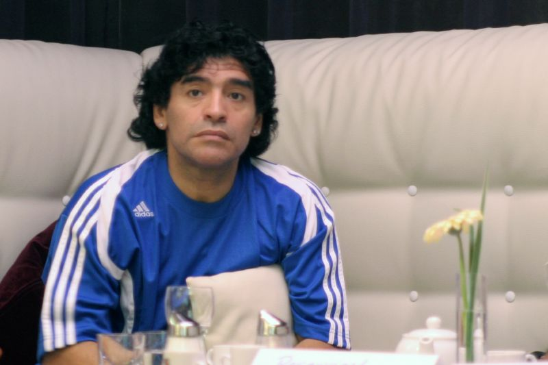 Diego Maradona watching the Germany-Sweden quarterfinal match of the 2006 FIFA World Cup on television. Leipzig, Germany, June 2006.